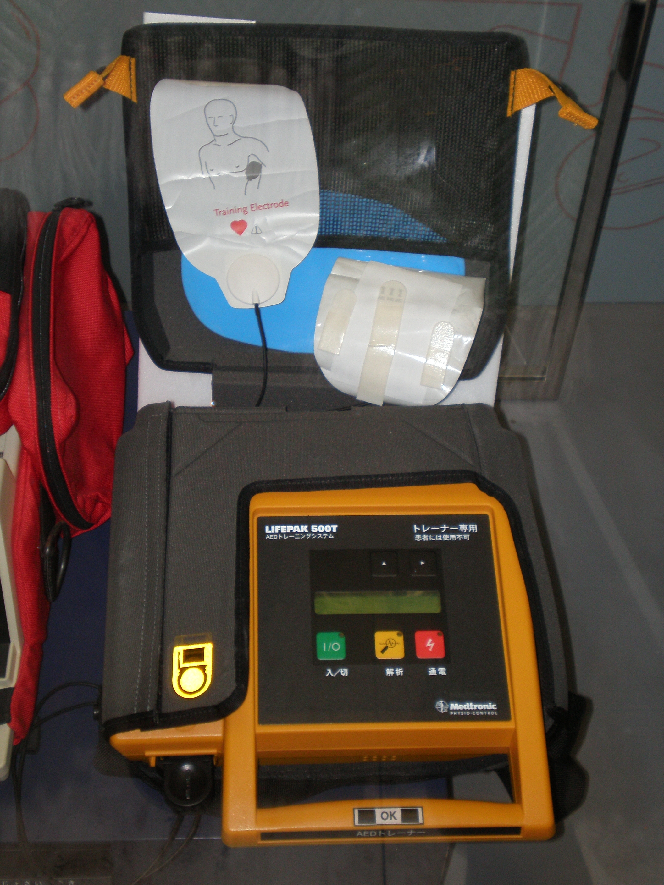 An Automated External Defibrillator (AED) Training Kit: Medtronic LIFEPAK 500T.